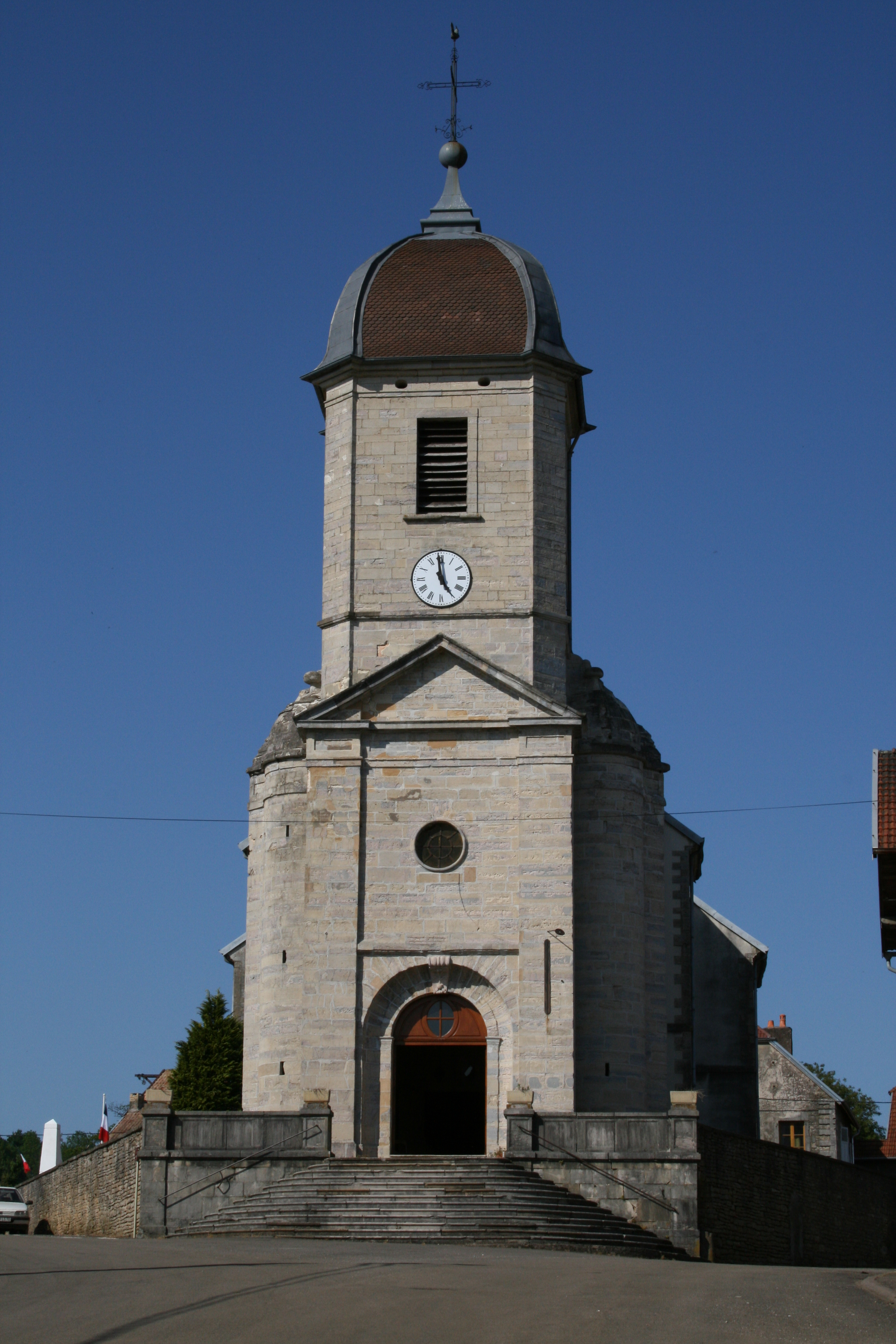 Borey Eglise Saint Martin